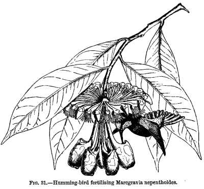 Fig31 from Darwinism by Alfred Russel Wallace, 1889